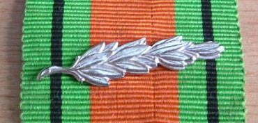 KCBribbon